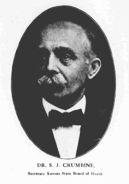 Newspaper photo of Dr Sam Crumbine.